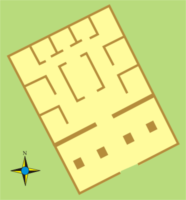 Tod temple of Montu